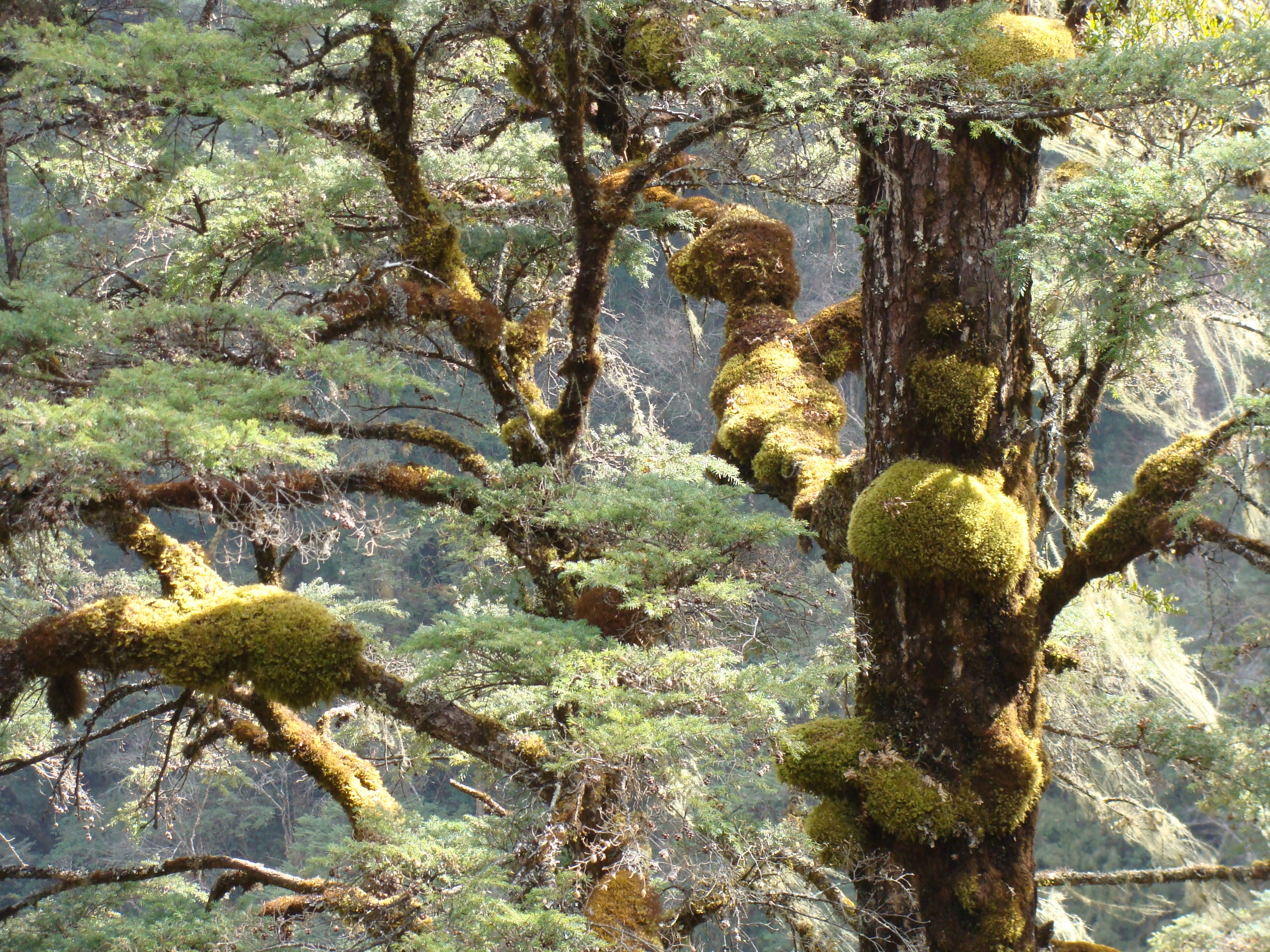 Tsuga dumosa, Bhutan